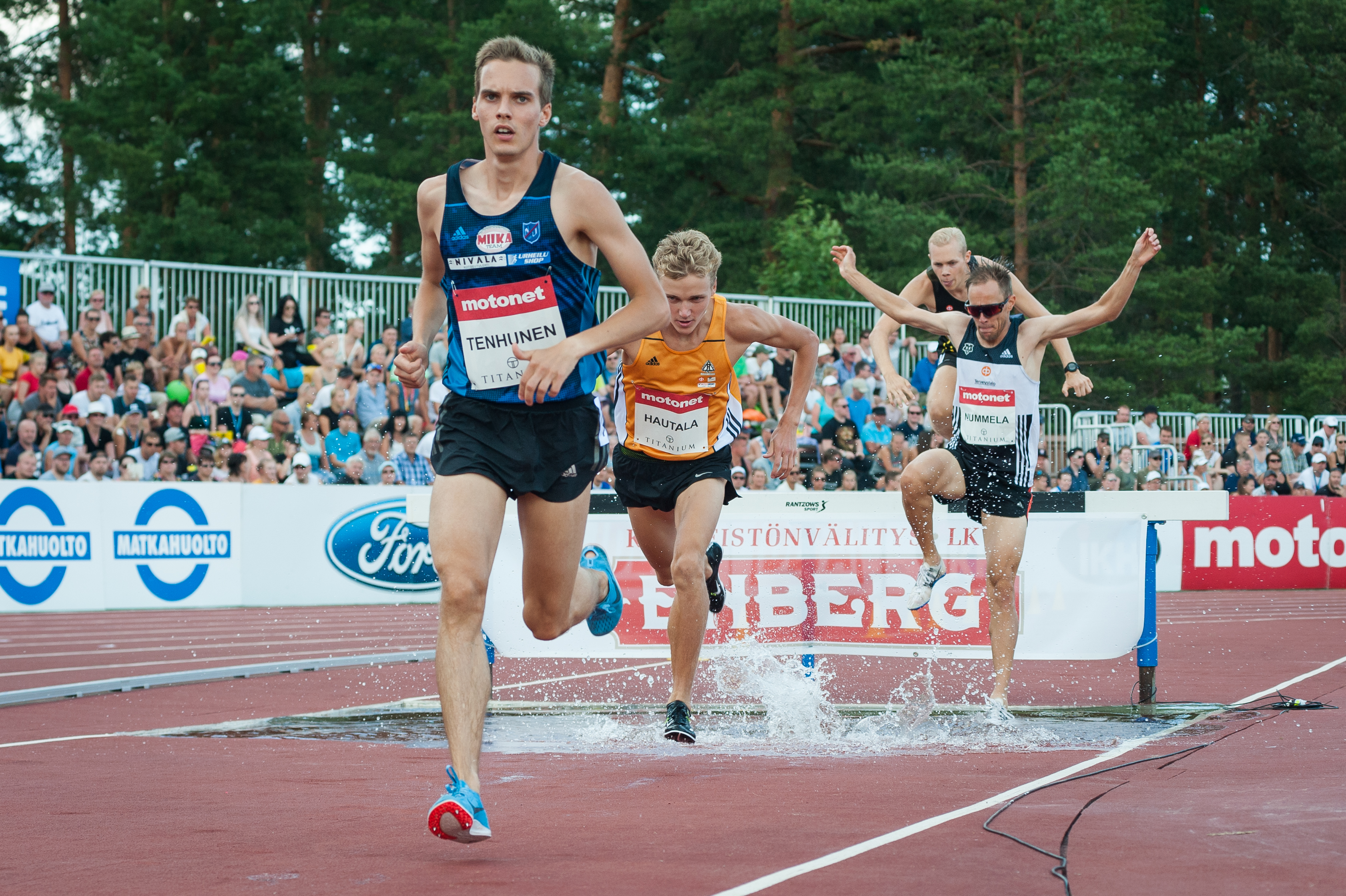 Men's 3000 m steeplechase competition at the 2018 Kalevan Kisat, the Finnish championships in athletics, in Jyväskylä, Finland. From left to right: Miika Tenhunen, Wilho Hautala, Eero Heinonen, Aki Nummela.